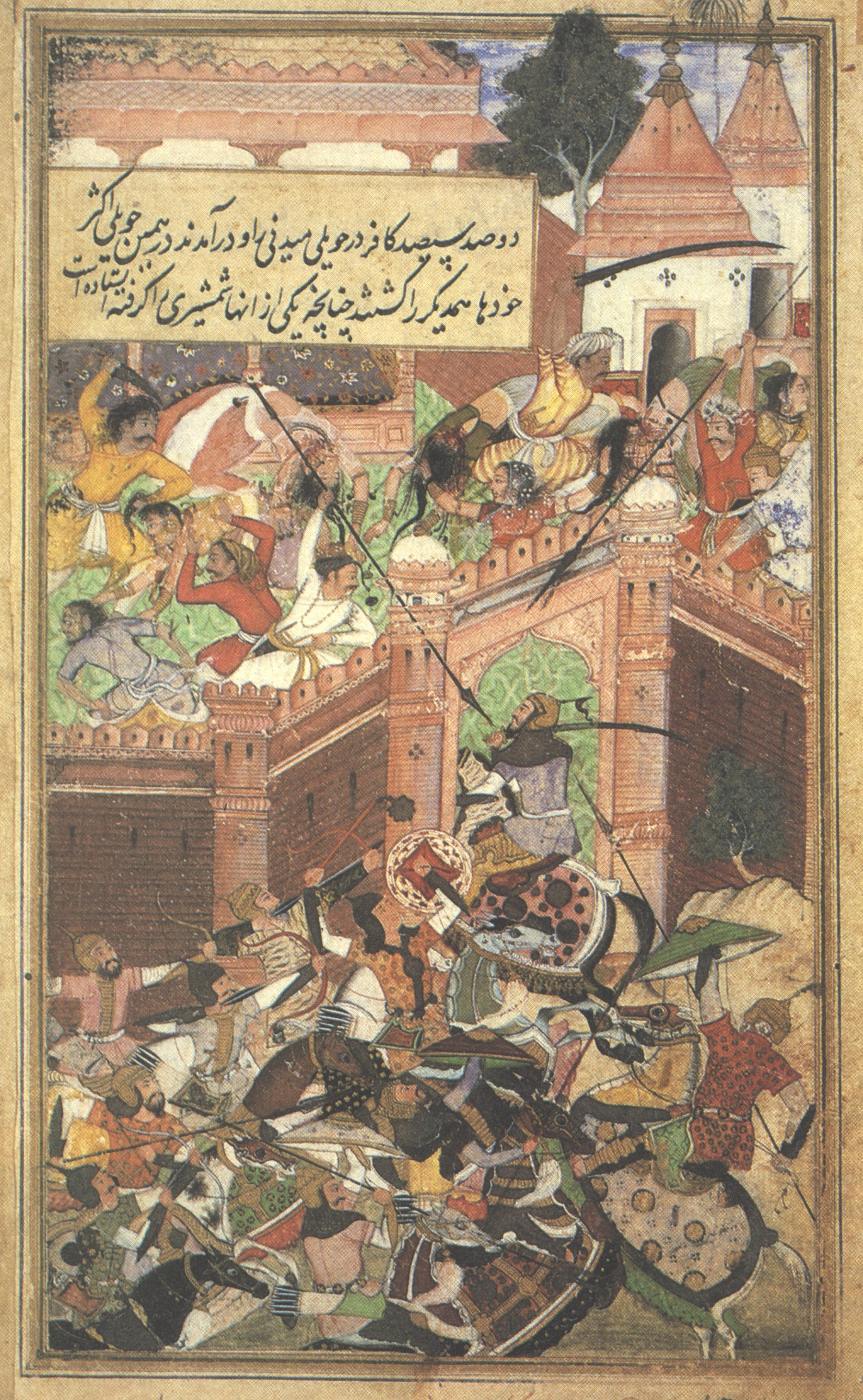 The "Memoirs of Babur" or Baburnama are the work of the great-great-great-grandson of Timur (Tamerlane), Zahiruddin Muhammad Babur (1483-1530). The Baburnama tells the tale of the prince's struggle first to assert and defend his claim to the throne of Samarkand and the region of the Fergana Valley. After being driven out of Samarkand in 1501 by the Uzbek Shaibanids, he ultimately sought greener pastures, first in Kabul and then in northern India, where his descendants were the Moghul (Mughal) dynasty ruling in Delhi until 1858. The miniatures are from an illustrated copy of the Baburnama prepared for the author's grandson, the Mughal Emperor Akbar. It is worth remembering that the miniatures reflect the culture of the court at Delhi; hence, for example, the architecture of Central Asian cities resembles the architecture of Mughal India. Nonetheless, these illustrations are important as evidence of the tradition of exquisite miniature painting which developed at the court of Timur and his successors. Timurid miniatures are among the greatest artistic achievements of the Islamic world in the fifteenth and sixteenth centuries. Illustrations of Mughals from the Baburnama